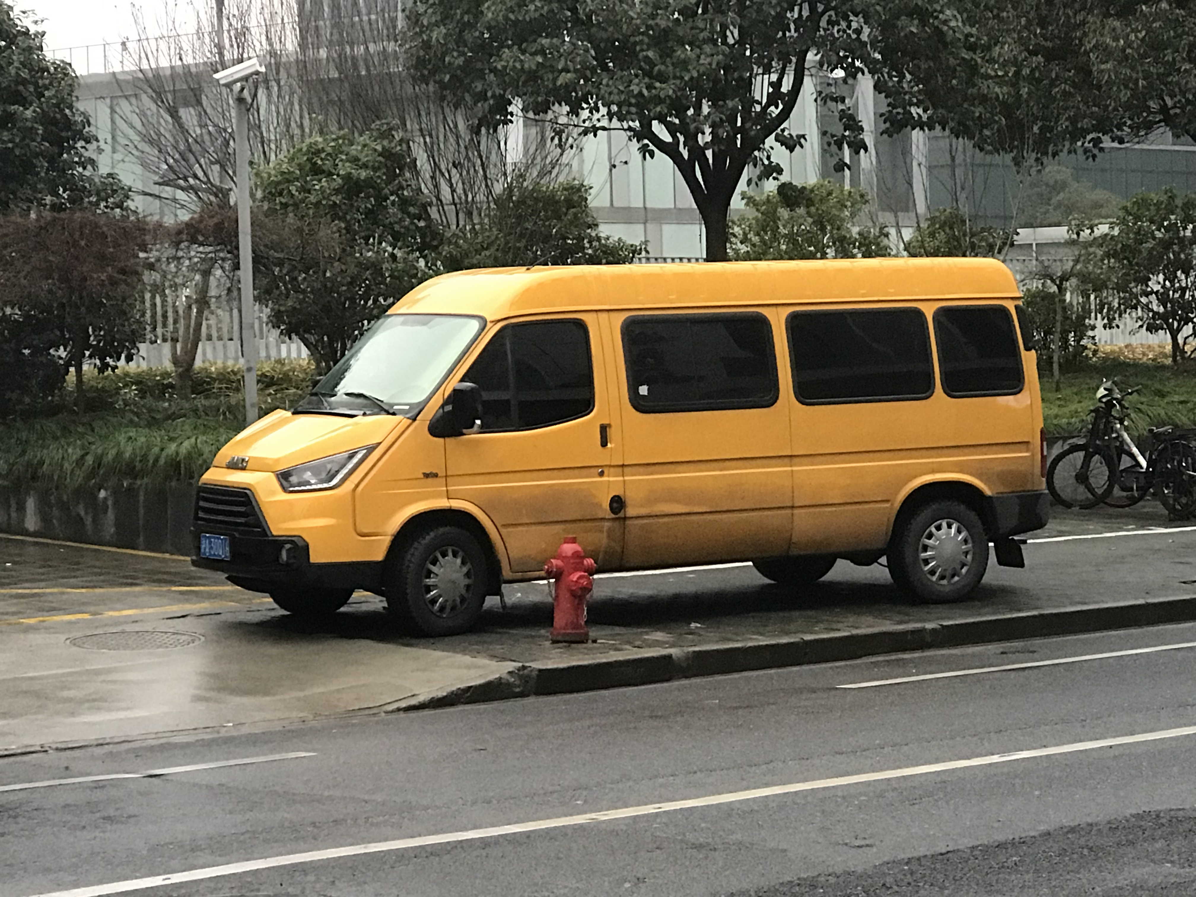 JMC Teshun